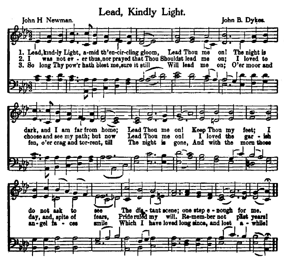 Lead, Kindly Light, poem by John Henry Newman, music by John Bacchus Dykes